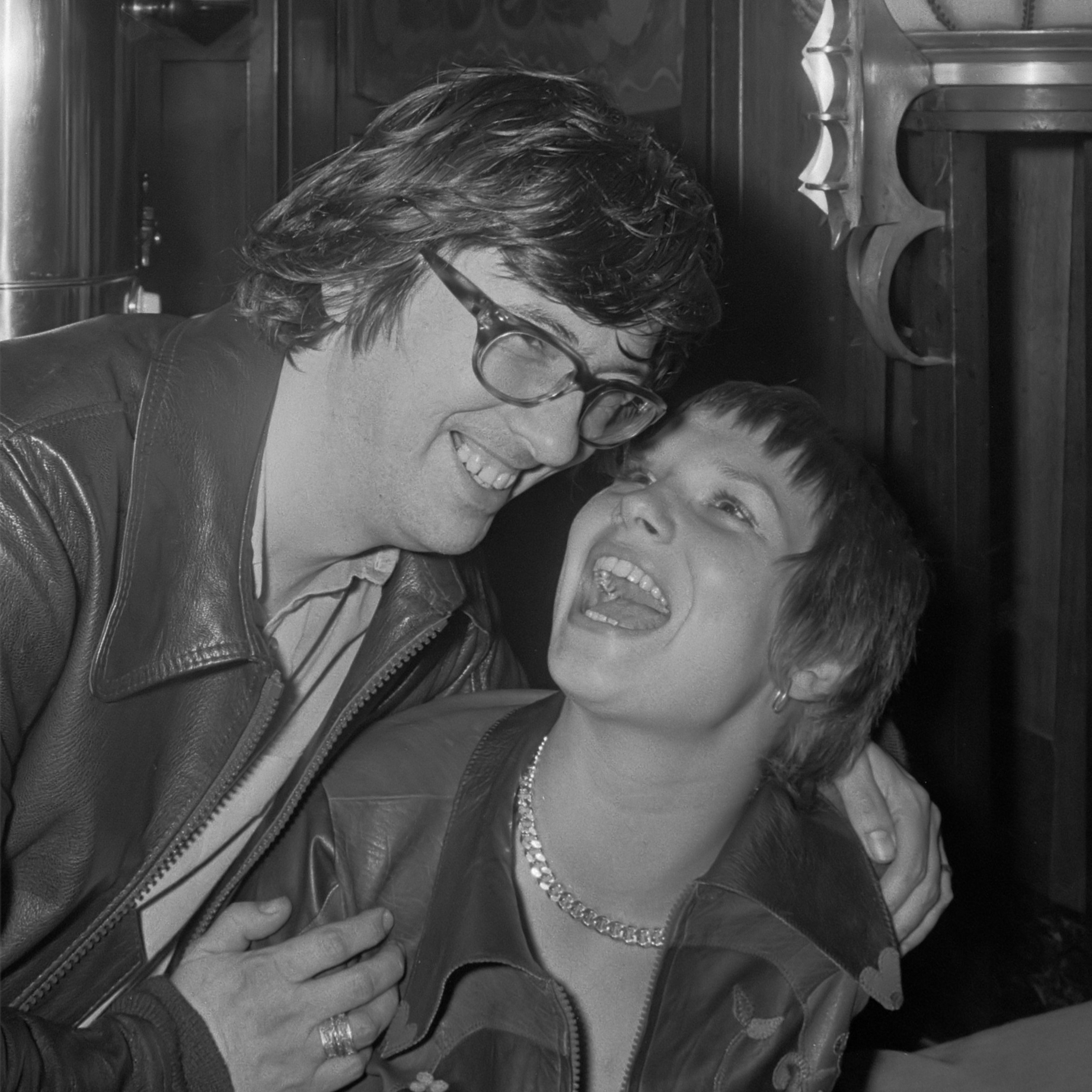 Premiere-voorstelling film "Turks Fruit" in Tuschinski, regisseur Paul Verhoeven en hoofdrolspeelster Monique van de Ven 22 februari 1973